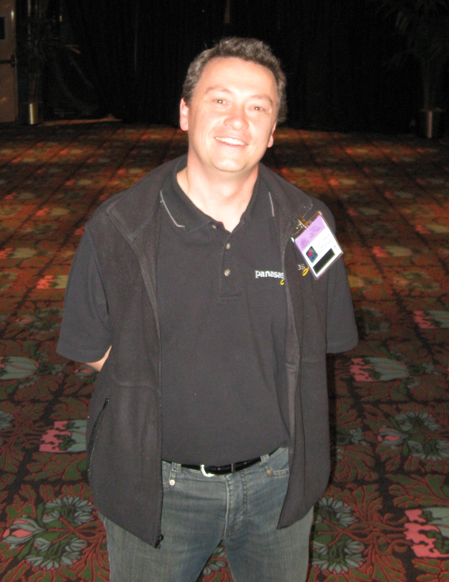 Garth Gibson, co-inventor of RAID